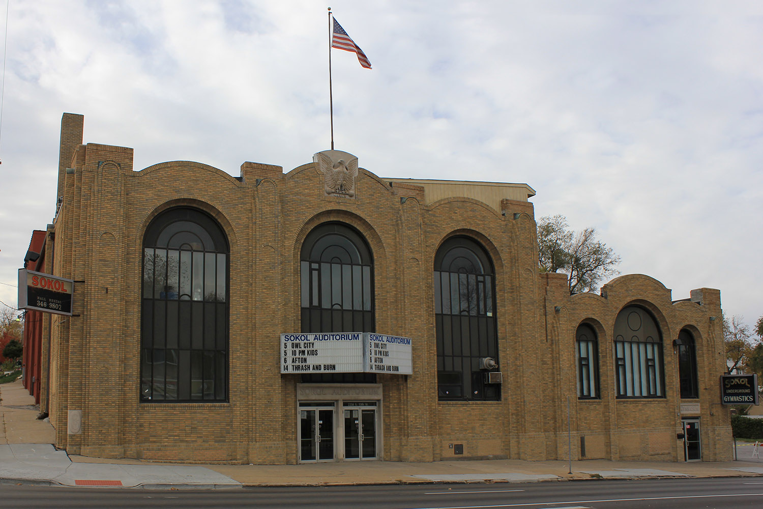 The Sokol Auditorium is located at 2234 South 13th Street in the Little Bohemia neighborhood of south Omaha, Nebraska. It is a local icon for its historical context, as well as modern musical performances and gymnastics.